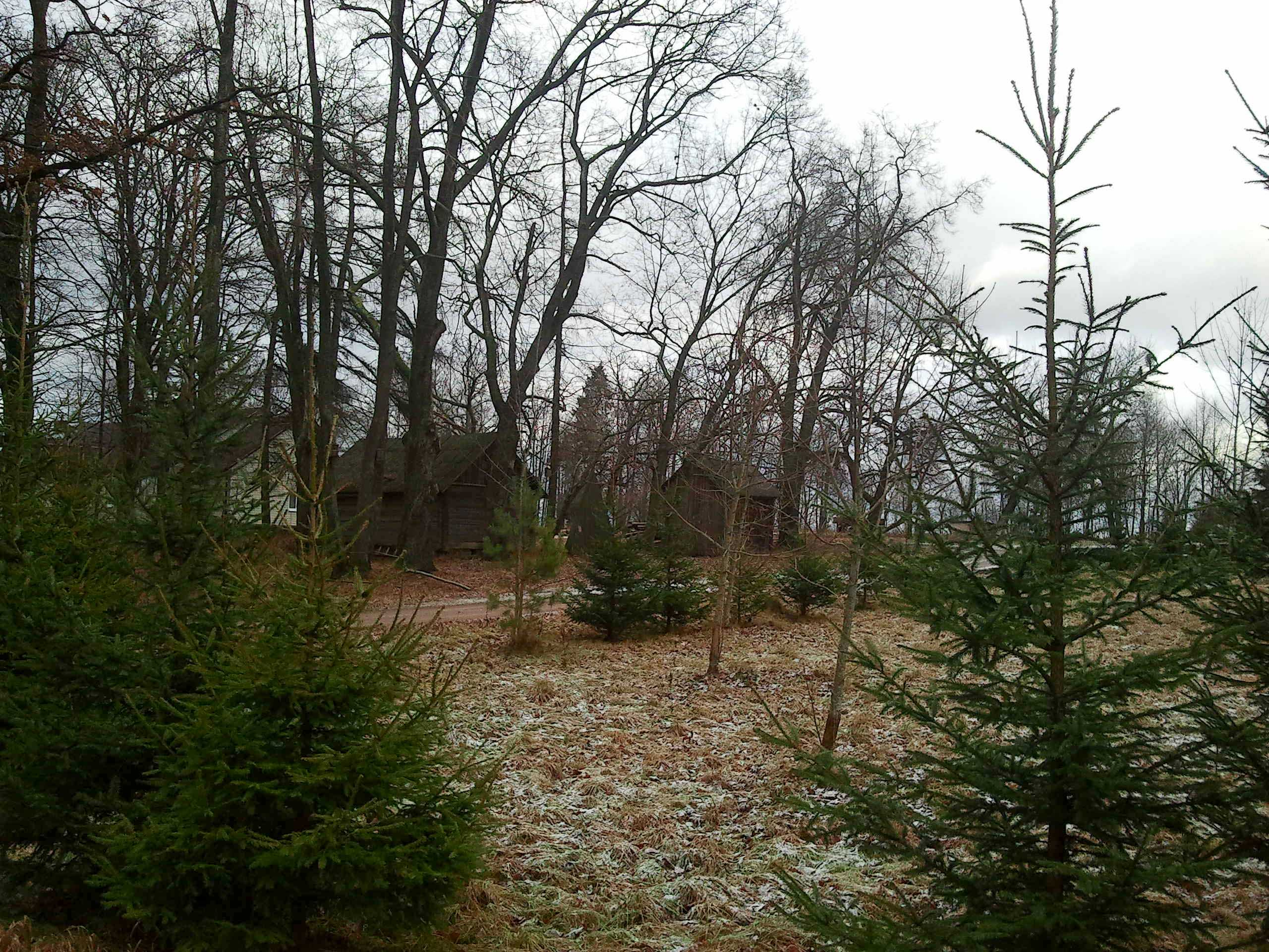 Kajkaŭski Biological Reserve, Belarus